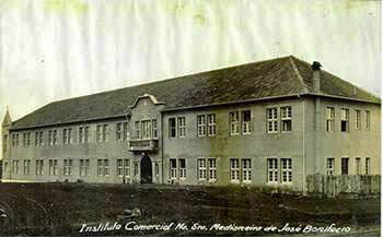 The old building of the Medianeira Marista School, Erechim, Brazil.